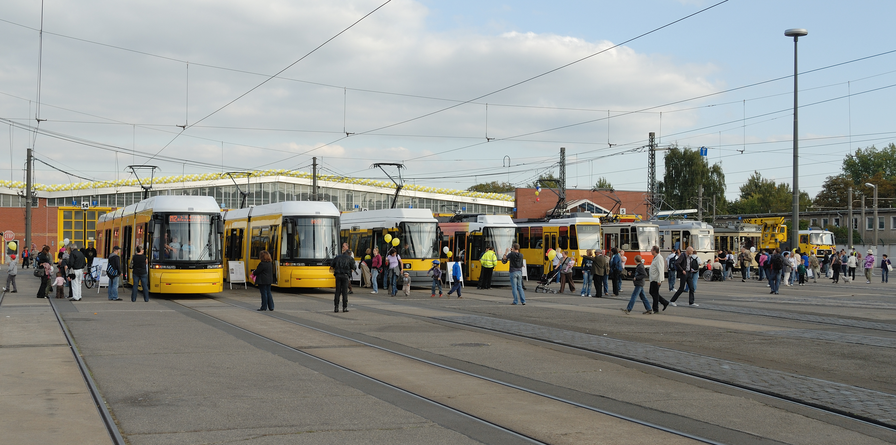 Open Day 2009 of BVG at Berlin-Lichtenberg depot. In front of the maintenance shop typical Berlin trams are presented. From left to right, new to old: Bombardier Flexity Berlin 4001 Bombardier Flexity Berlin 8001 Adtranz GT6N-ZR (BVG designation GT6-99) Adtranz GT6N (BVG designation GT6-94/96) ČKD Tatra KT4D mod ČKD Tatra KT4D, as delivered in 1986 TE59 (1924 model T 24 reconstructed in the GDR in 1959) T 24 of 1924 MAN truck crane